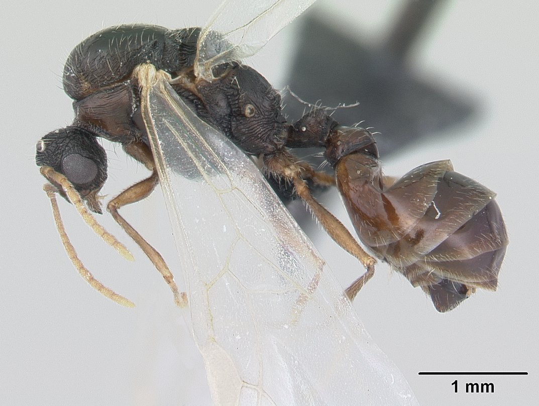 Profile view of ant Tetramorium caespitum specimen casent0178769.